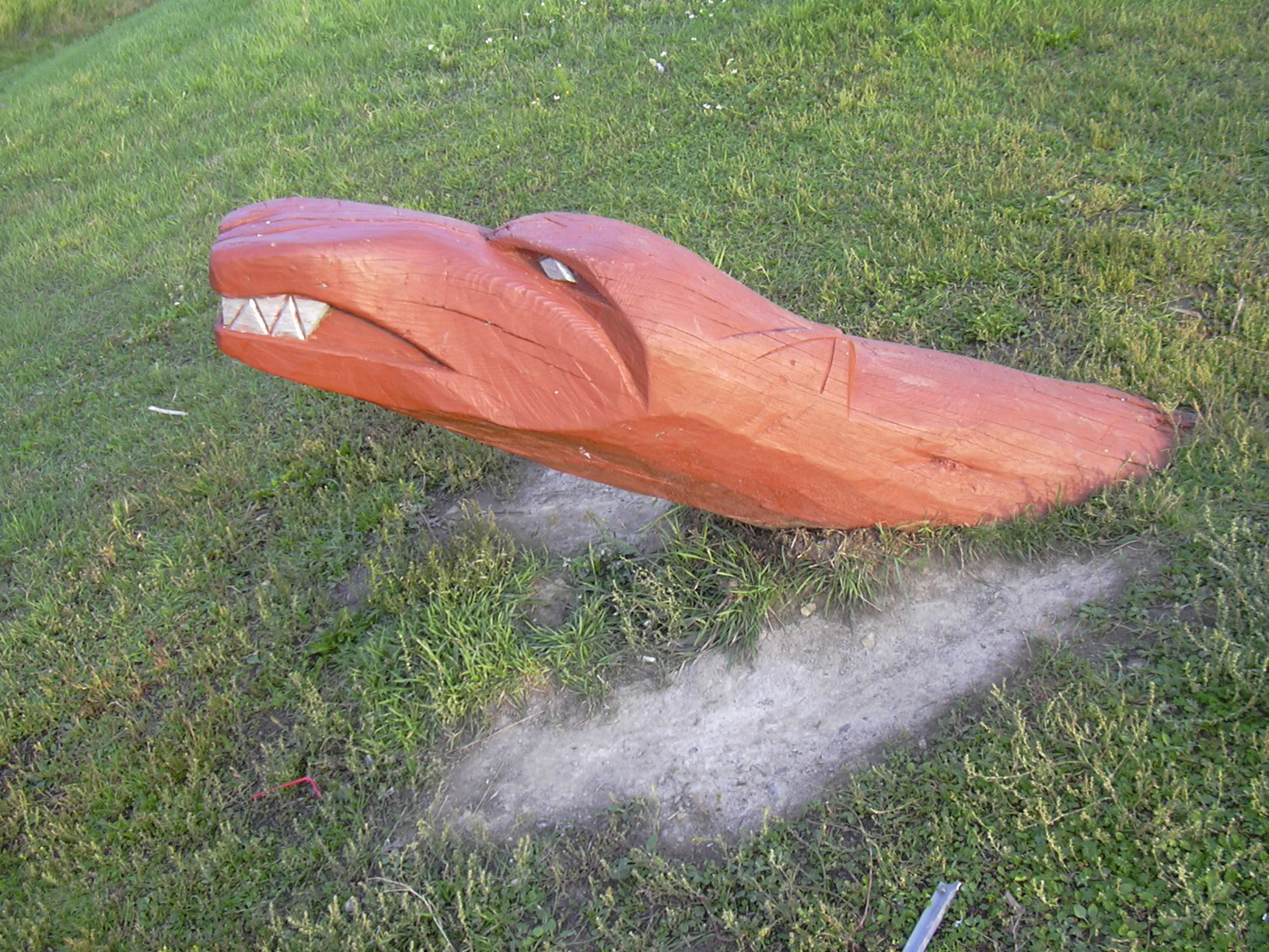 russian pagan temple in St.Petersburg